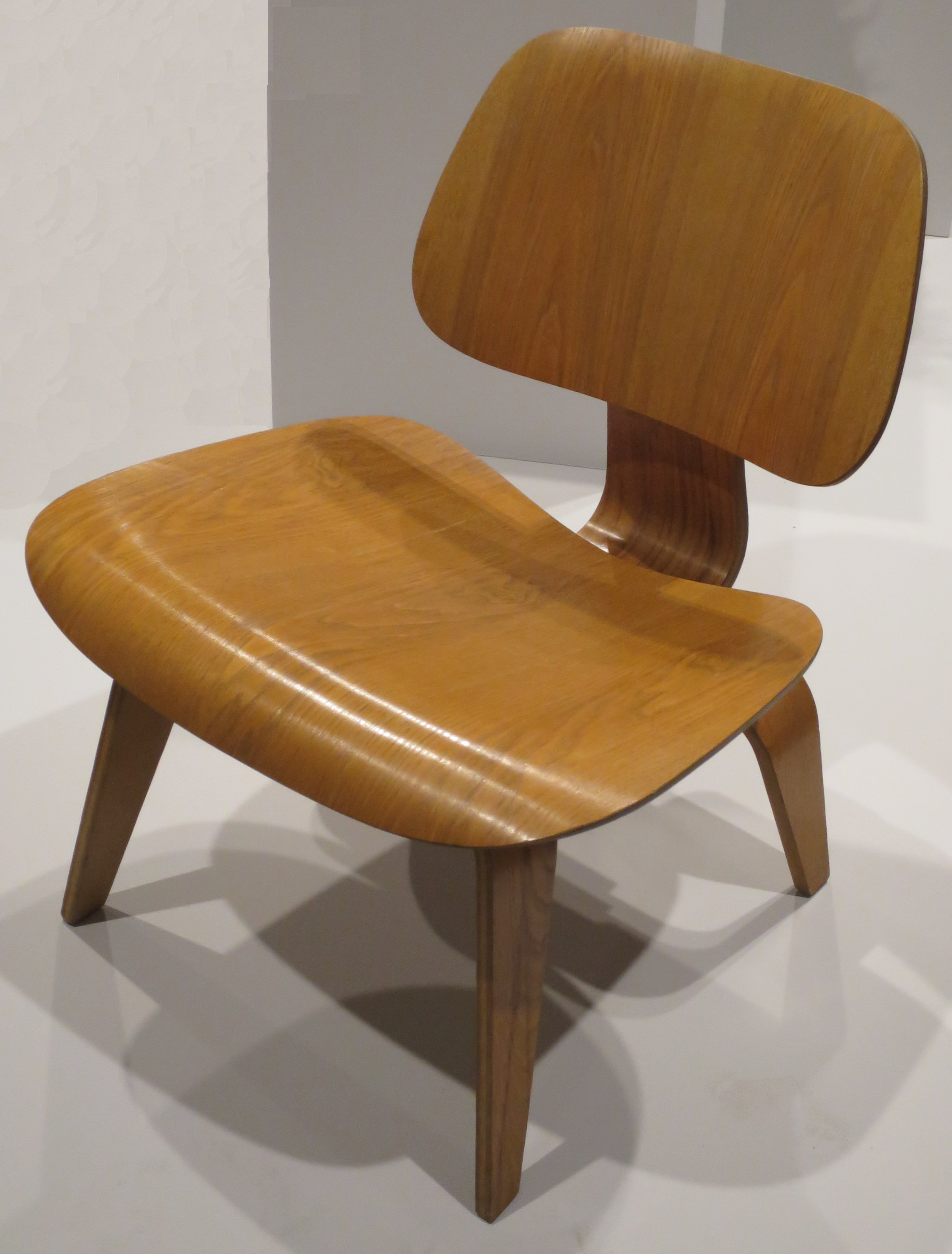 LCW (Lounge Chair Wood) Chair by Charles and Ray Eames, designed 1945-46, molded plywood, teakwood veneer, rubber shock mounts, Honolulu Museum of Art accession 4410.1